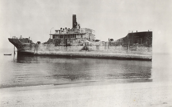 A photo of the SS Atlantus shortly after it ran aground off the coast of Sunset Beach, Cape May, New Jersey.